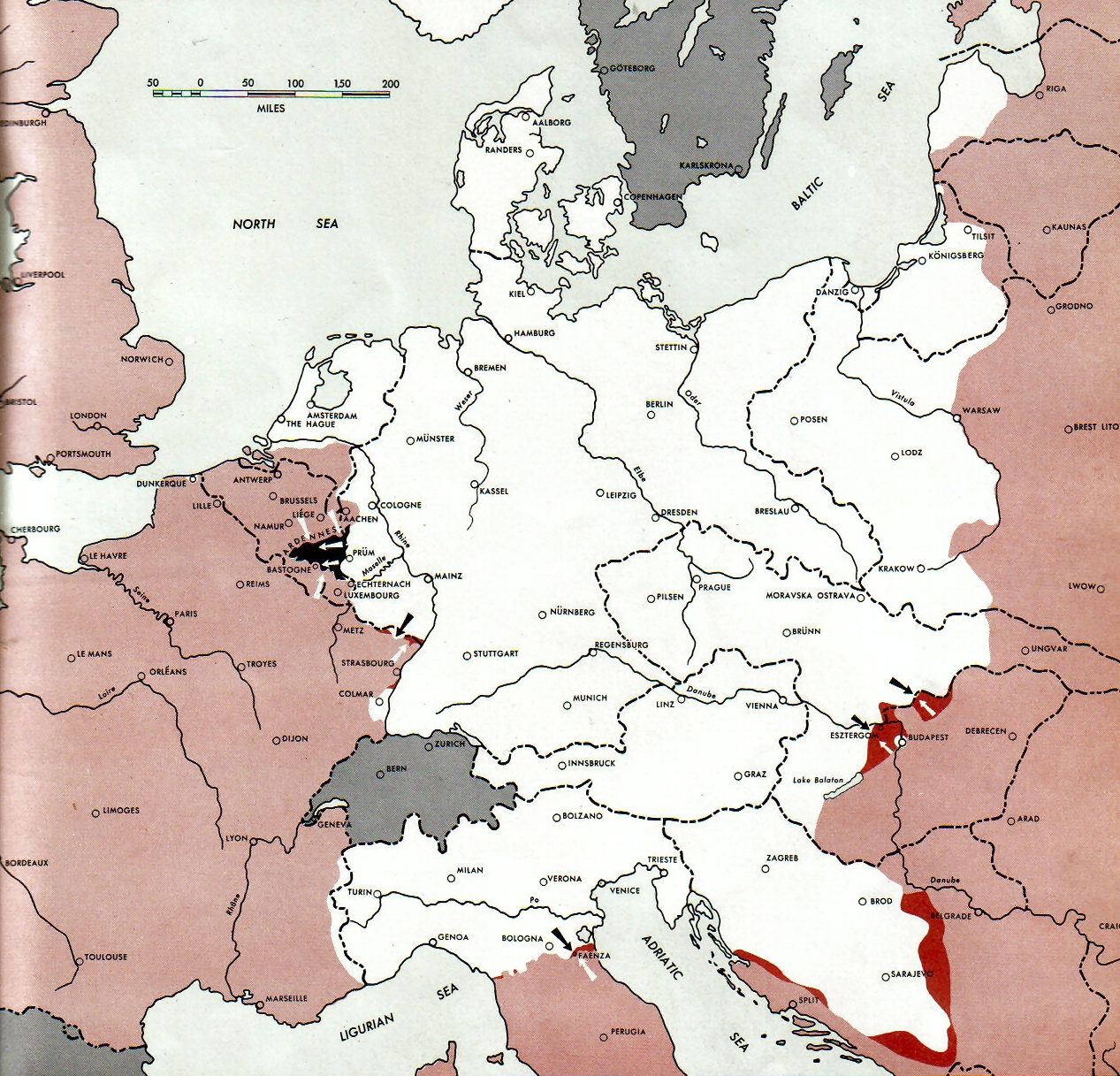 Map of the front against Germany: This map is taken from the source "Atlas of the World Battle Fronts in Semimonthly Phases to August 15th 1945: Supplement to The Biennial report of The Chief of Staff of the United States Army July 1, 1943 to June 30 1945 To the Secretary of War". (See Cover, Forward and Map details)